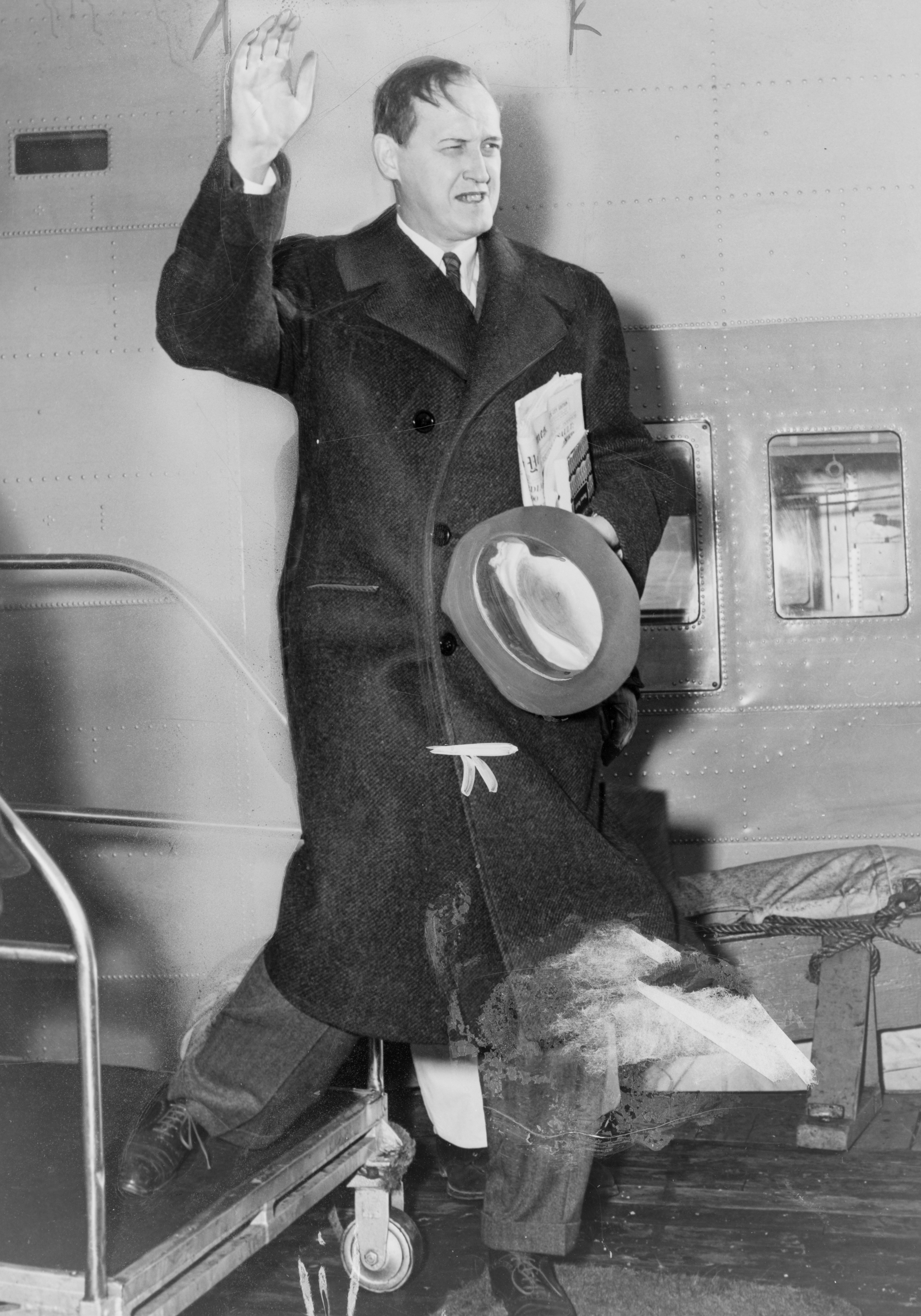 "Harry L. Hopkins as he left for England vis Lisbon today" / World-Telegram photo by Palumbo.